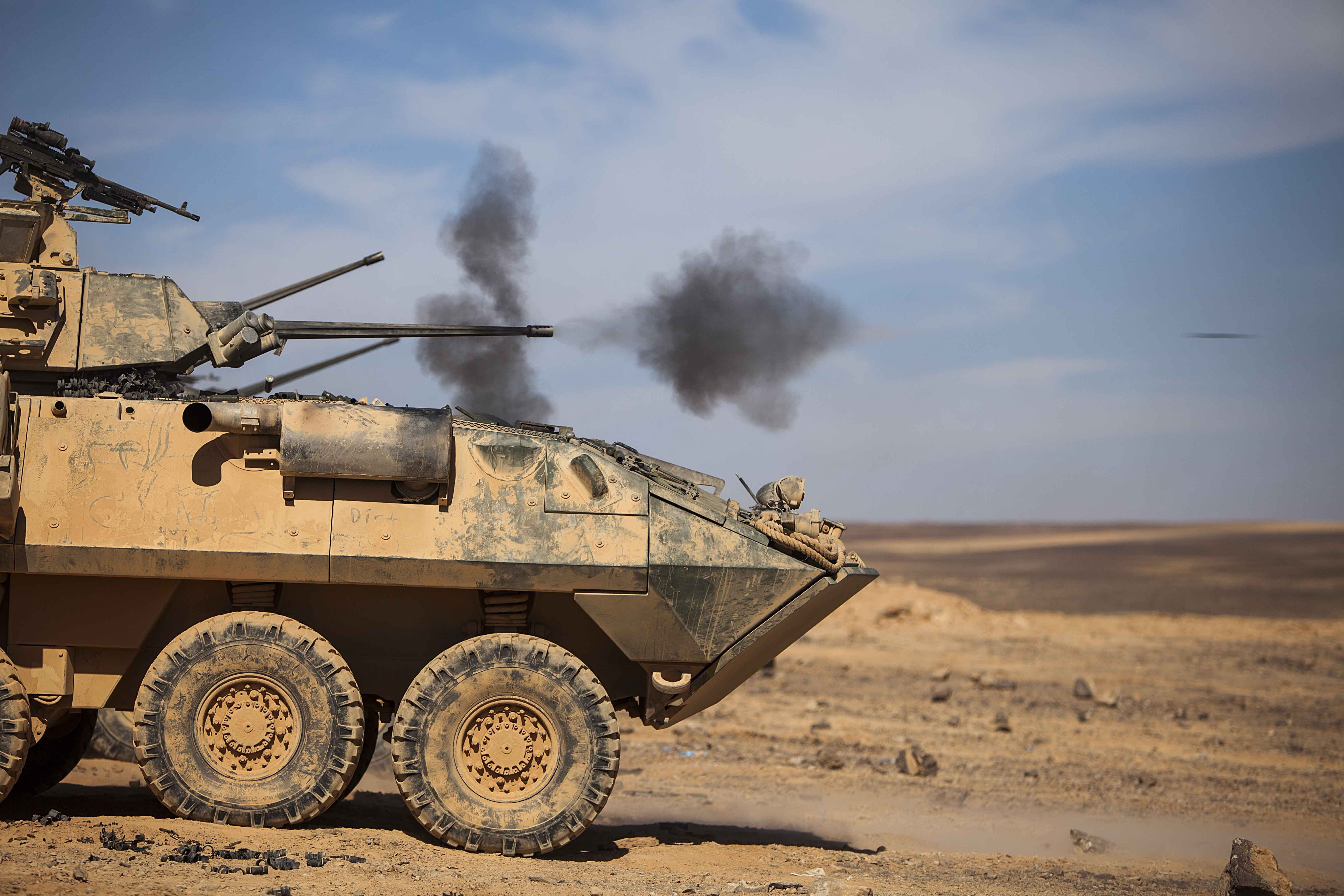 A U.S. Marine Corps light armored vehicle with Battalion Landing Team 1st Battalion, 6th Marine Regiment, 22nd Marine Expeditionary Unit (MEU), fires its 25 mm Bushmaster machine gun during a live-fire exercise as part of Exercise Eager Lion 2014. Eager Lion is a recurring, multinational exercise designed to strengthen military-to-military relationships, increase interoperability between partner nations and enhance regional security. The 22nd MEU is deployed with the Bataan Amphibious Ready Group as a theater reserve and crisis response force throughout U.S. Central Command and the U.S. 5th Fleet area of responsibility. (U.S. Marine Corps photo by Sgt. Austin Hazard/Released) Unit: 22nd Marine Expeditionary Unit DVIDS Tags: 22nd Marine Expeditionary Unit; 22MEU; USMC; APC; United States Marine Corps; Jordan; Amphibious Ready Group; 22d MEU; M240B machine gun; LAV; JAF; USS Bataan (LHD 5); ARG; 22nd MEU; LAR; live-fire range; light armored vehicle; light armored reconnaissance; M113 armored personnel carrier; Jordanian Armed Forces; EagerLion2014; Exercise Eager Lion 2014; 25 mm Bushmaster machine gun